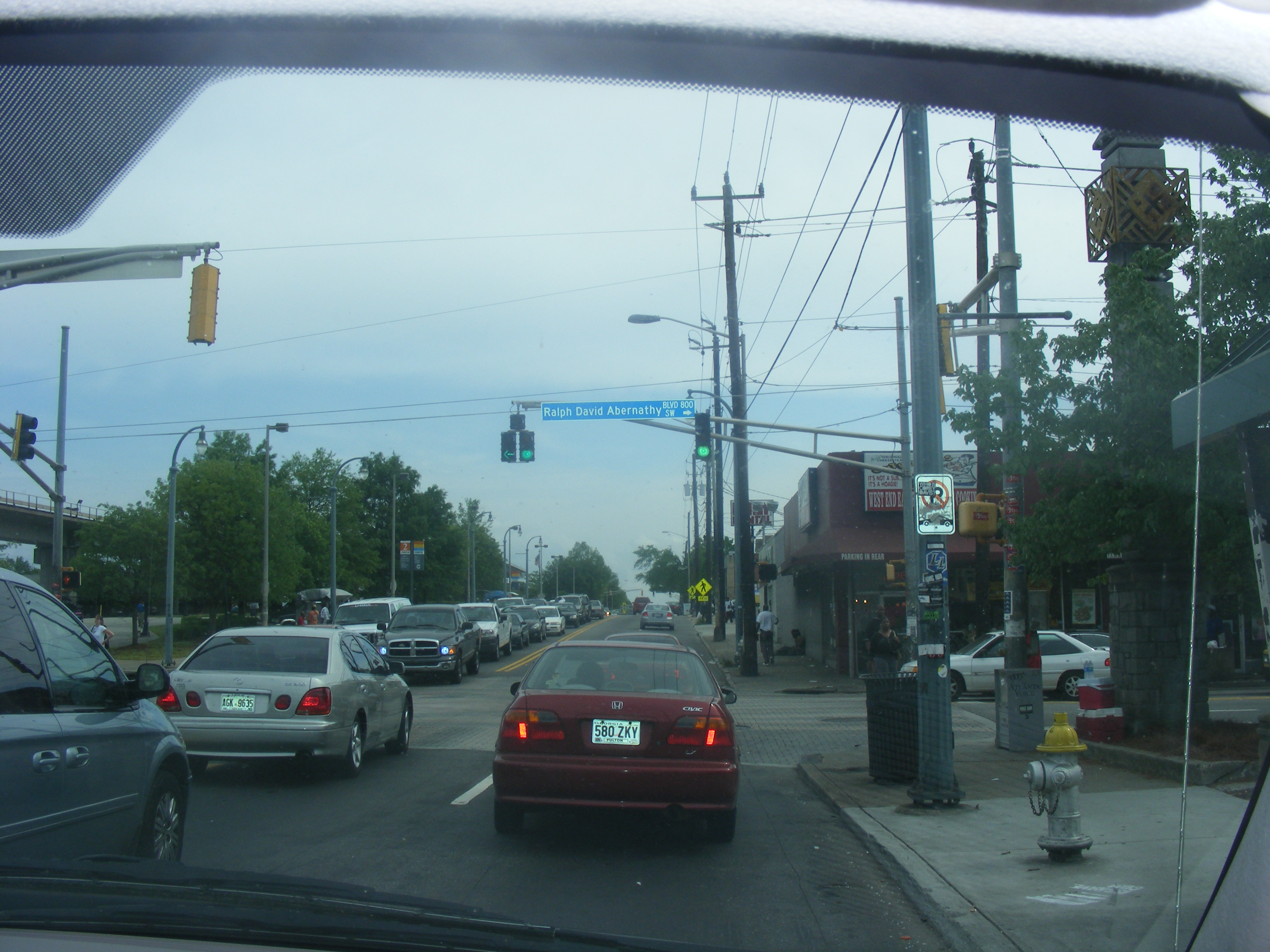 abernathy street in atlanta